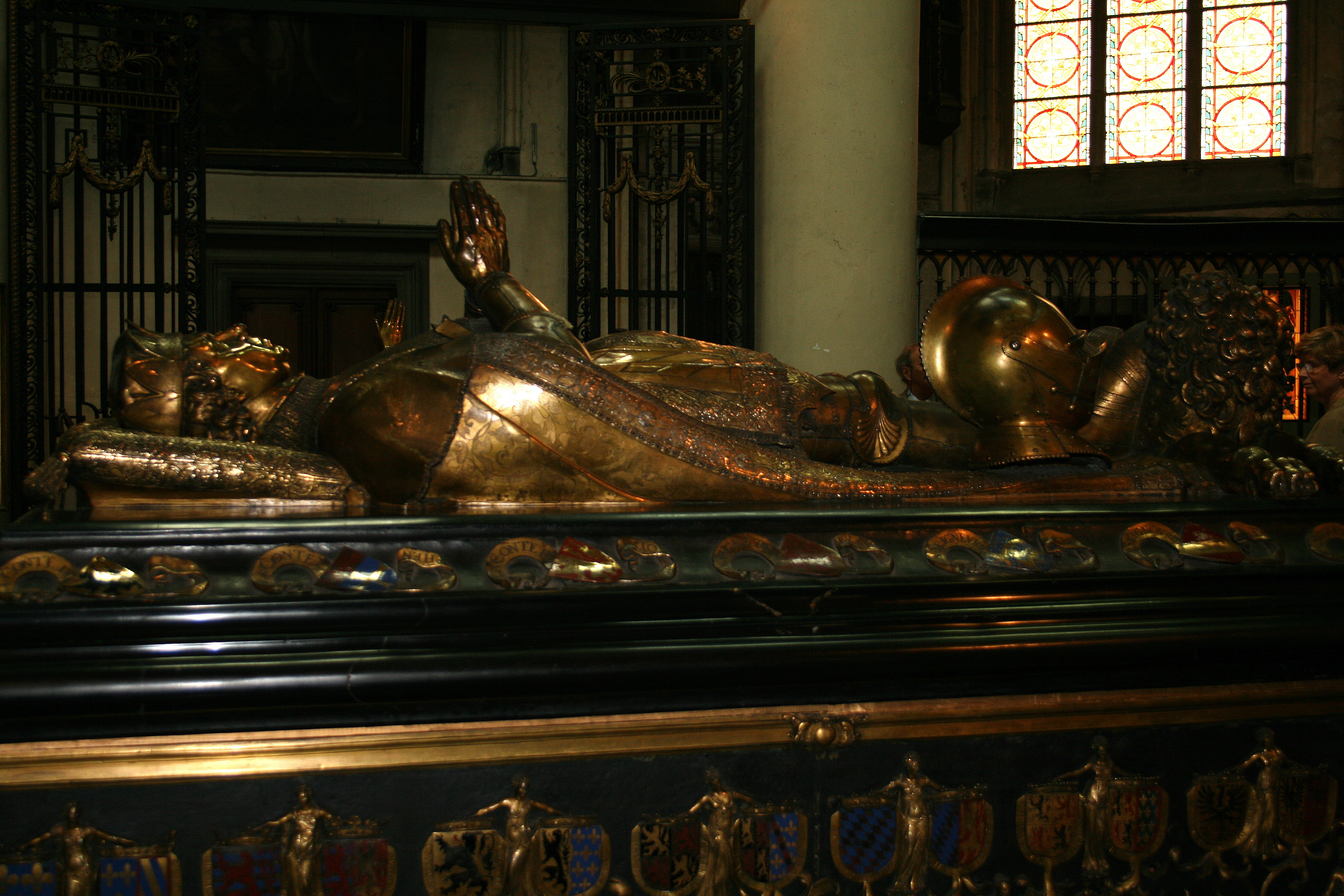 Tomb of Charles the Bold - Cornelius Floris project executed by the master brassware maker Jacob Jonghelinck (1558-1562) - Our Lady church in Bruges.